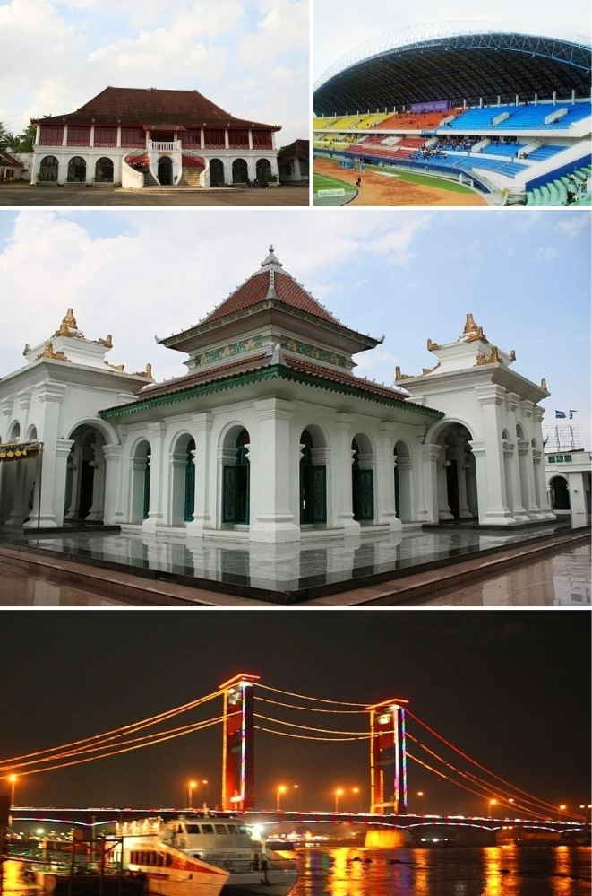 Some landmark place in Palembang